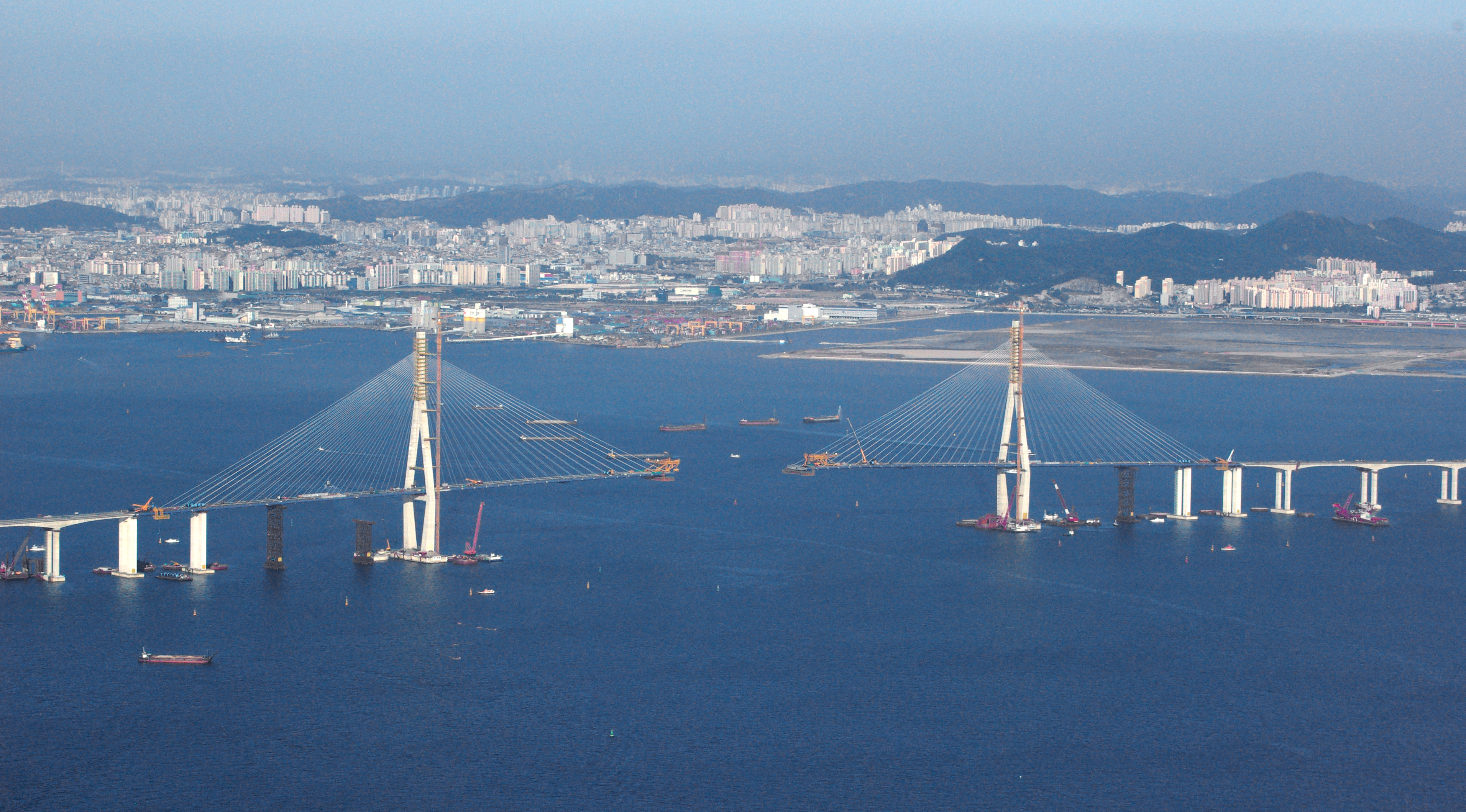 This shot was taken from my airplane window shortly before landing at Seoul Incheon International Airport. This is the Incheon Bridge, and it is due to open in 2009. The whole bridge is very long - 12.3 km - with a cable-stayed section (this picture) going over the deepest part of the port. I found some nice info on the bridge here